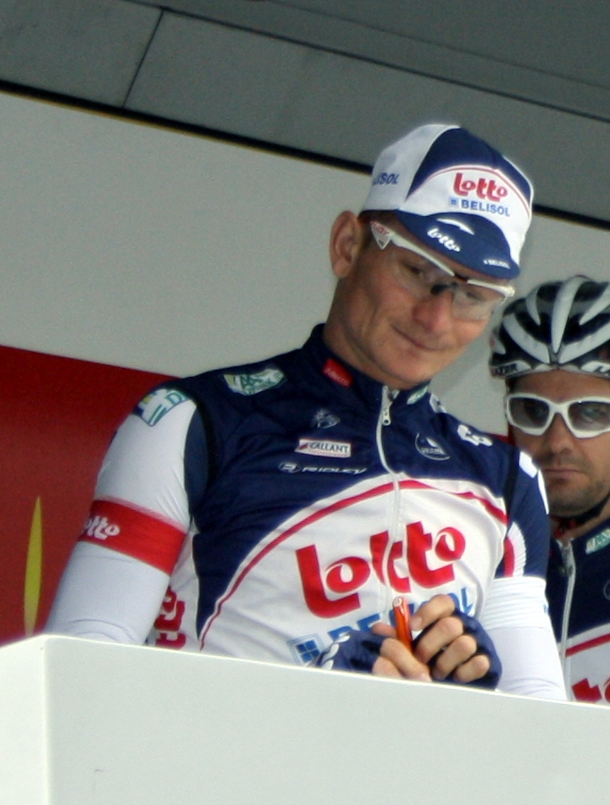 André Greipel at the start of the World Ports Classic 2012 in Rotterdam